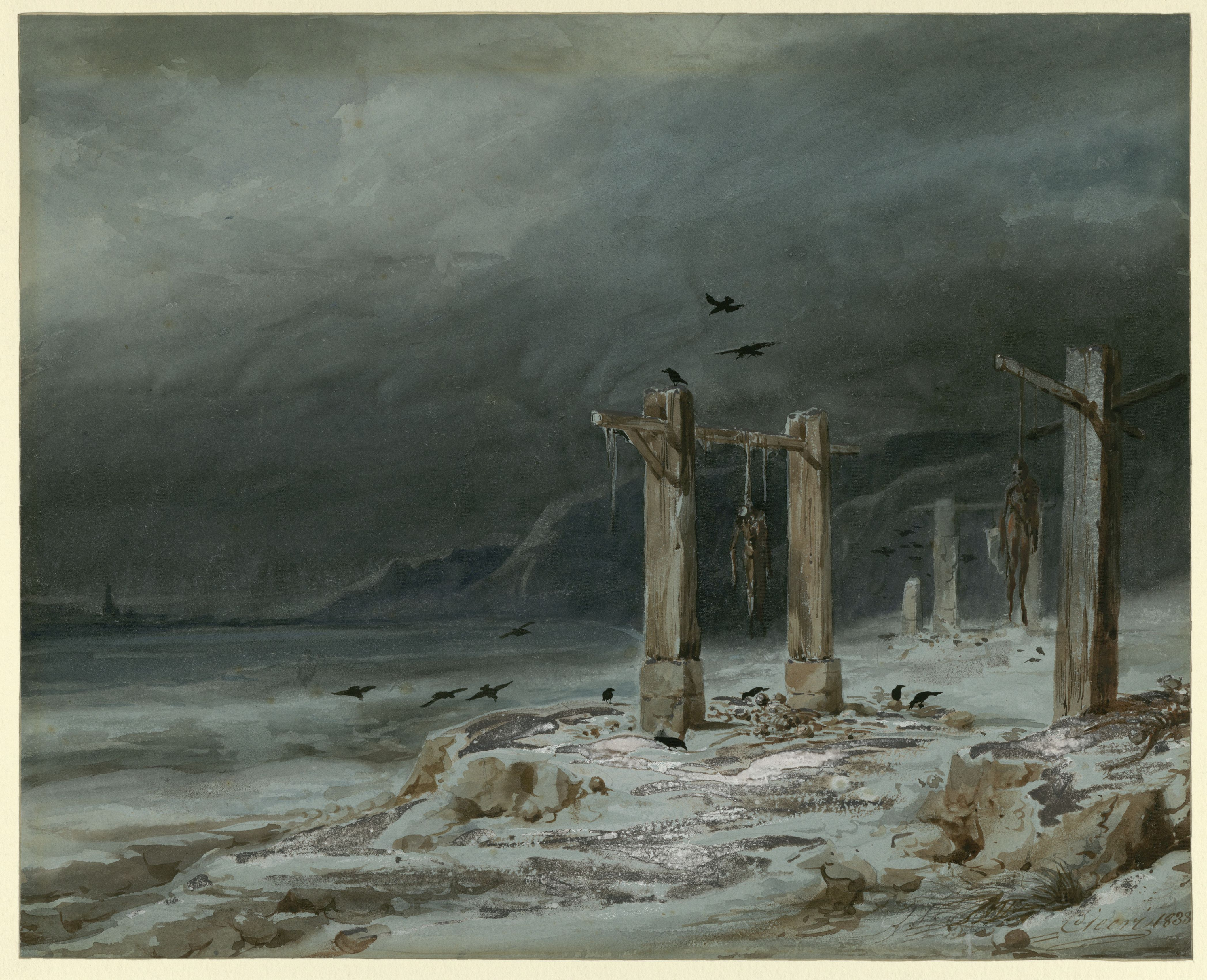 Set design for Act III Daniel Auber's Gustave III ou Le bal masqué from the première production of 27 February 1833. Watercolours and gouache ; 260 x 340 mm.